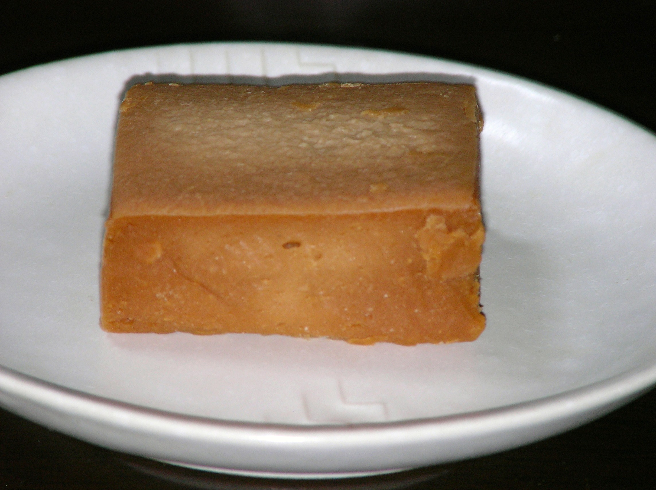 "So" (restoration), the solid milk which was reduced by boiling. It is a dairy products of ancient Japan. Producer:Nishii Namanyu Kako Hanbaisho (Kashihara city, Nara prefecture, Japan)